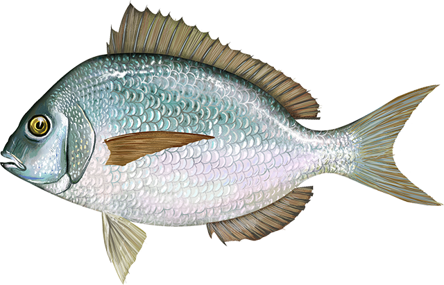 Scup, Stenotomus chrysops